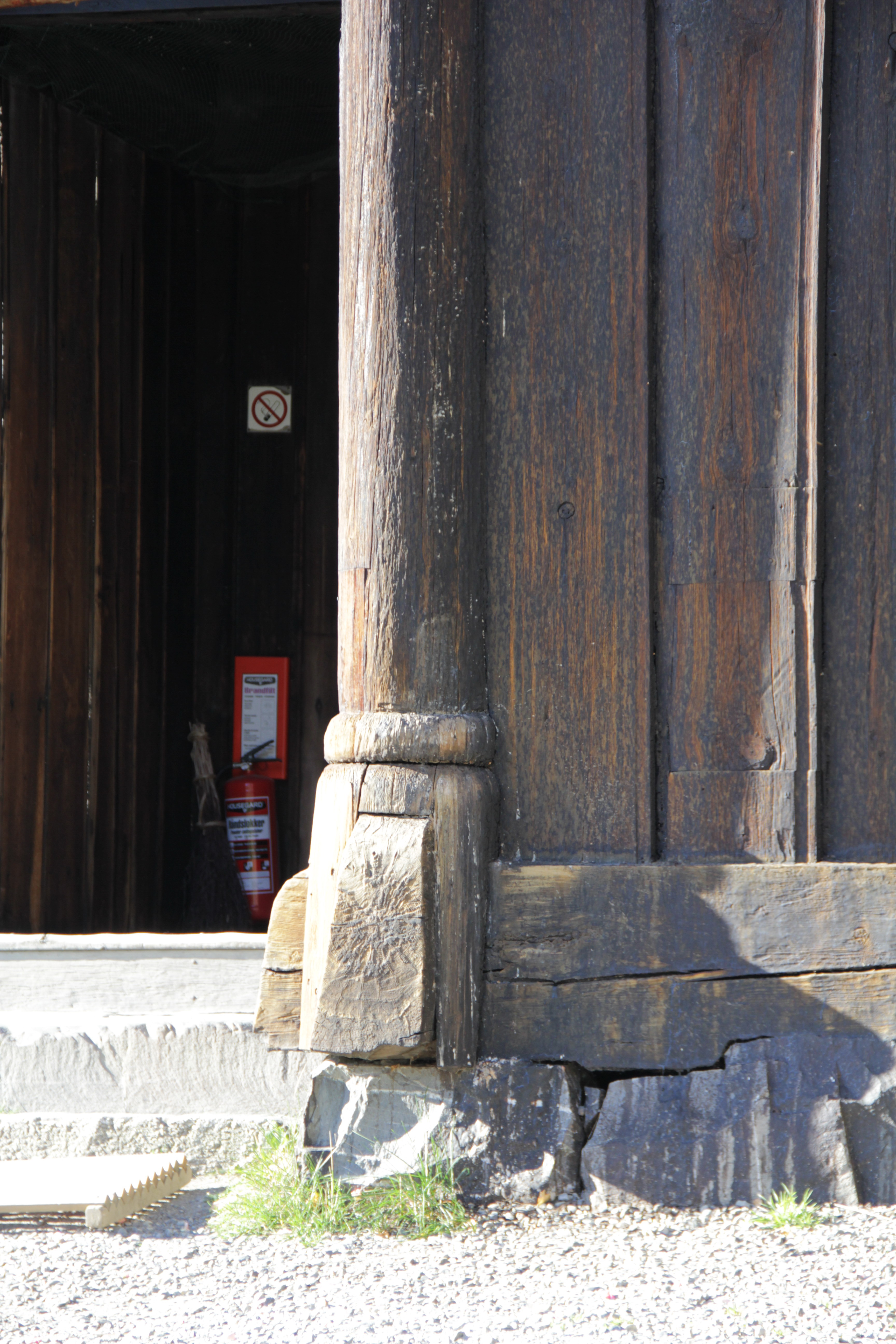 Garmo stave church, detail, Maihaugen, Lillehammer, Norway